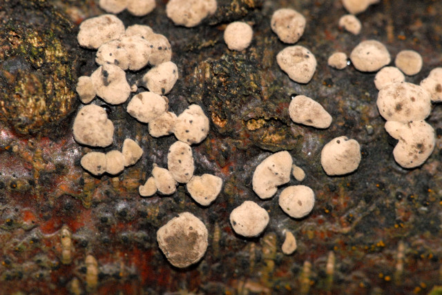 Annulohypoxylon cohaerens from Commanster, Belgium. If you think this is a different taxon, please contact James Lindsey.